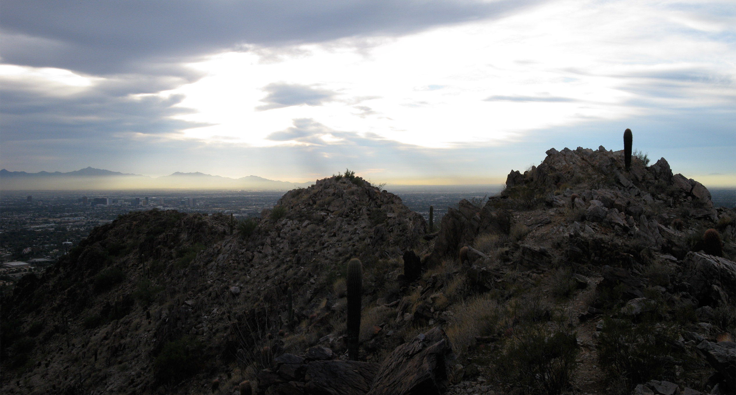 View of midtown Phoenix, Arizona from the Phoenix Mountain Preserve at 32nd St. and Lincoln Dr.